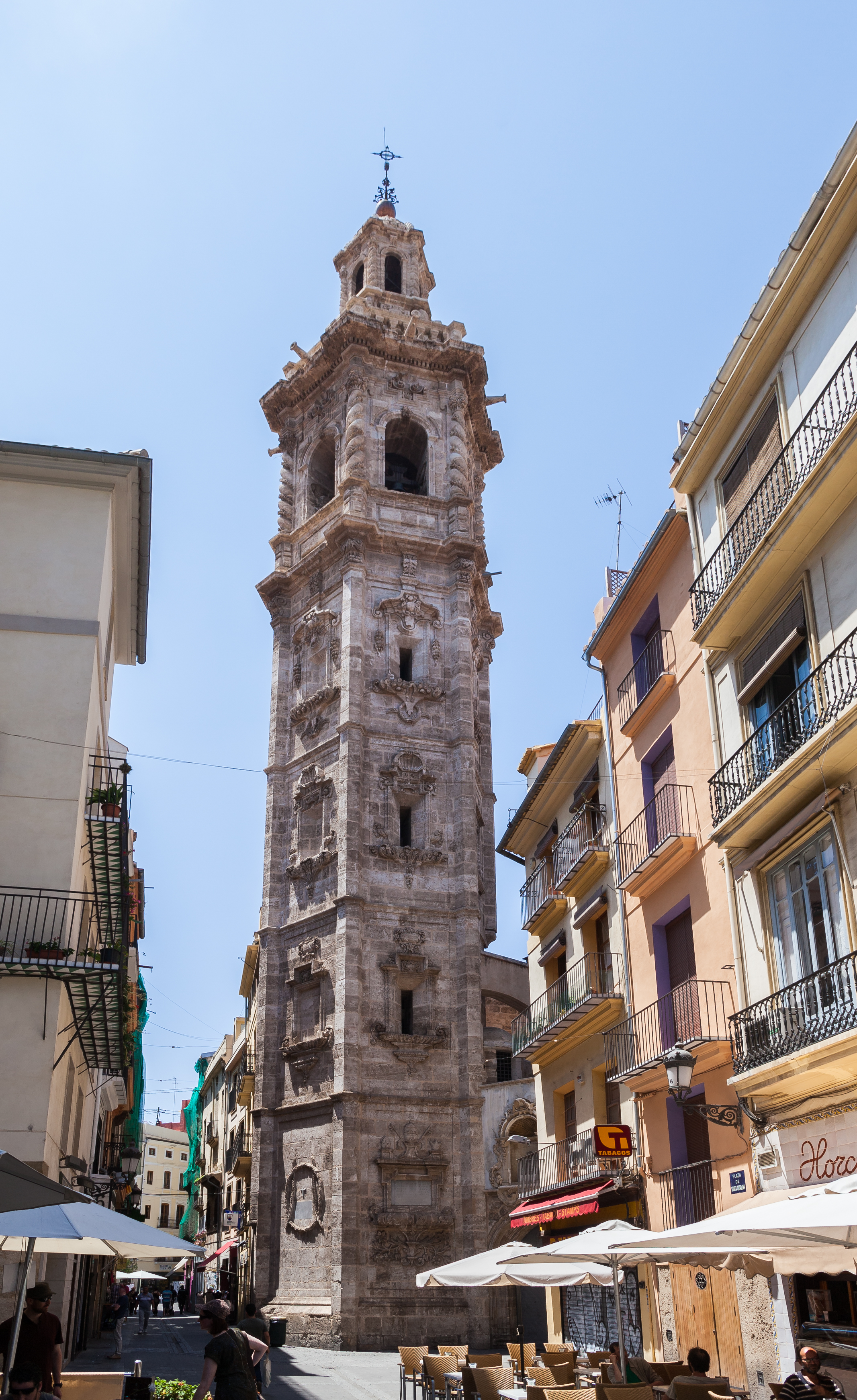 Tower of Santa Catalina, Valencia, Spain